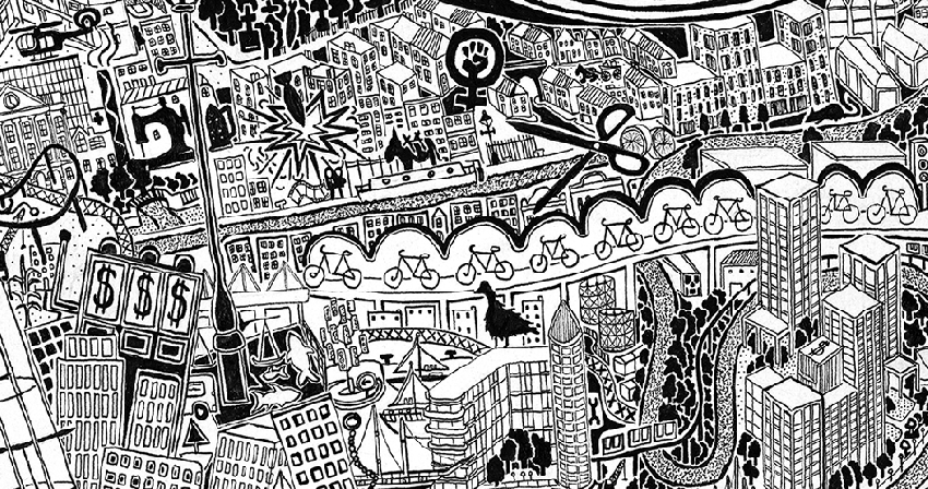 Detail of London Town by Fuller, the Limehouse Cut area of East London.